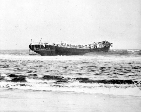 The Nathan F Cobb after being washed ashore in 1896.